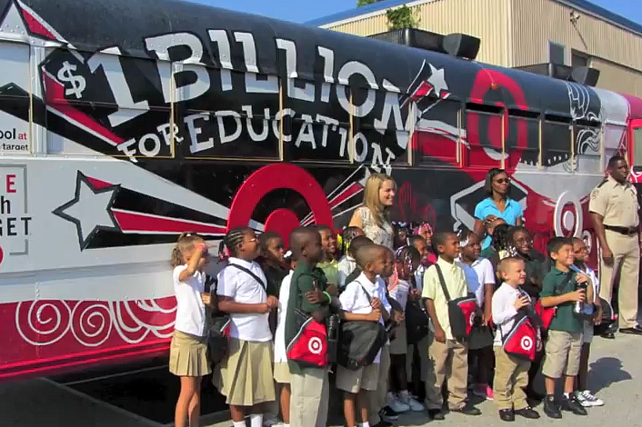 American actress Bridgit Mendler surprised an elementary school in Baltimore, MD, with $20,000 for Target's campaign 'Give WithTarget'